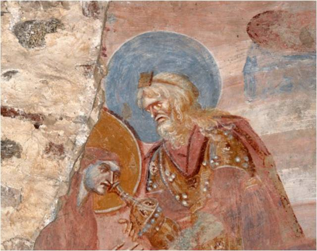 Fresco of unknown dating, representing the ordeal of the bitter water and realised by oriental craftsmen in the church of Santa Maria foris portas at Castelseprio.